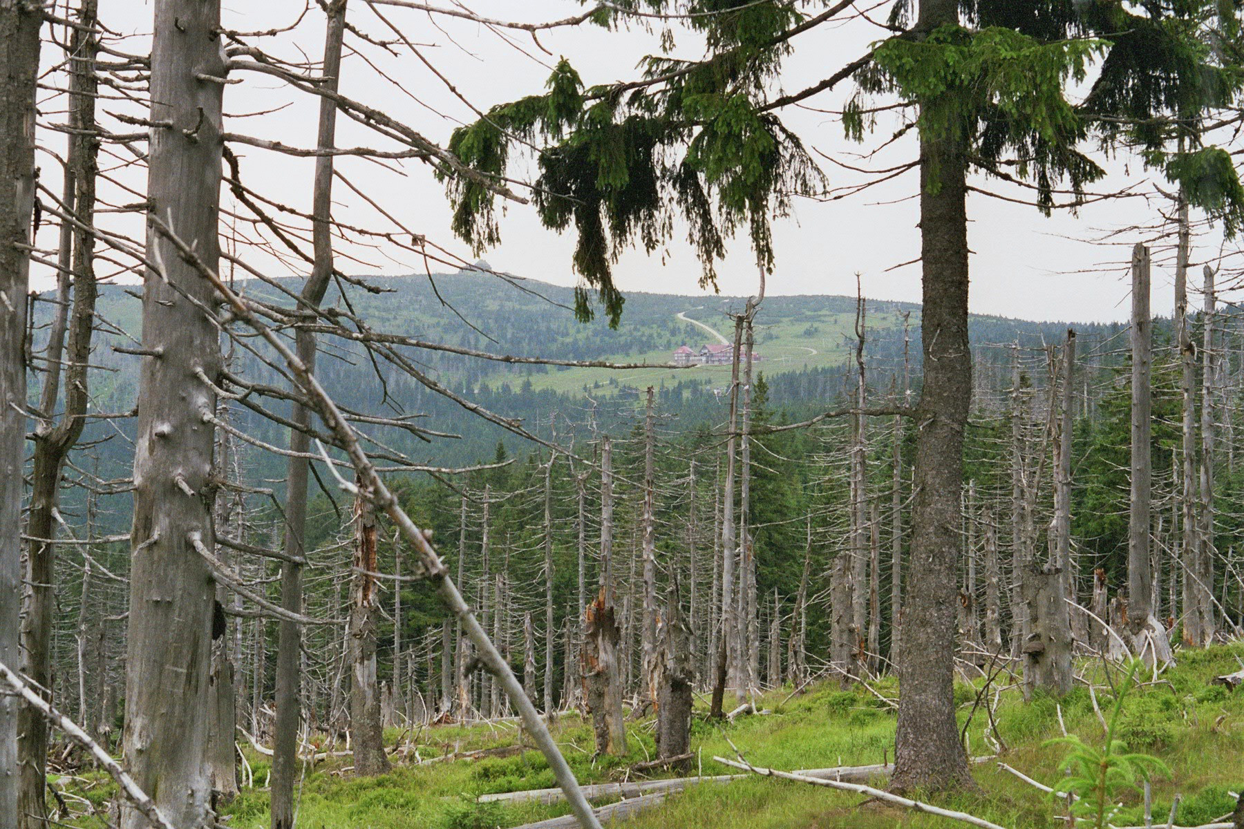 Dead trees, Giant Mountains, Poland